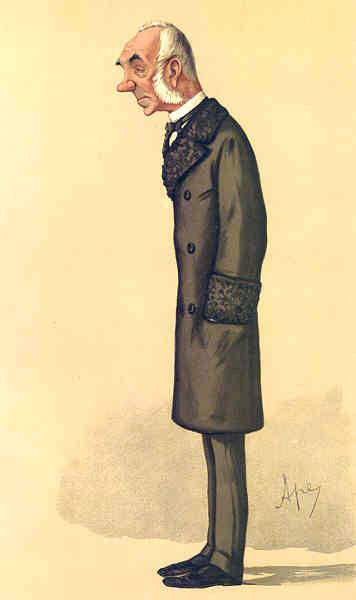 Caption of Edward Thornton. Caption read "safe Ambassador".